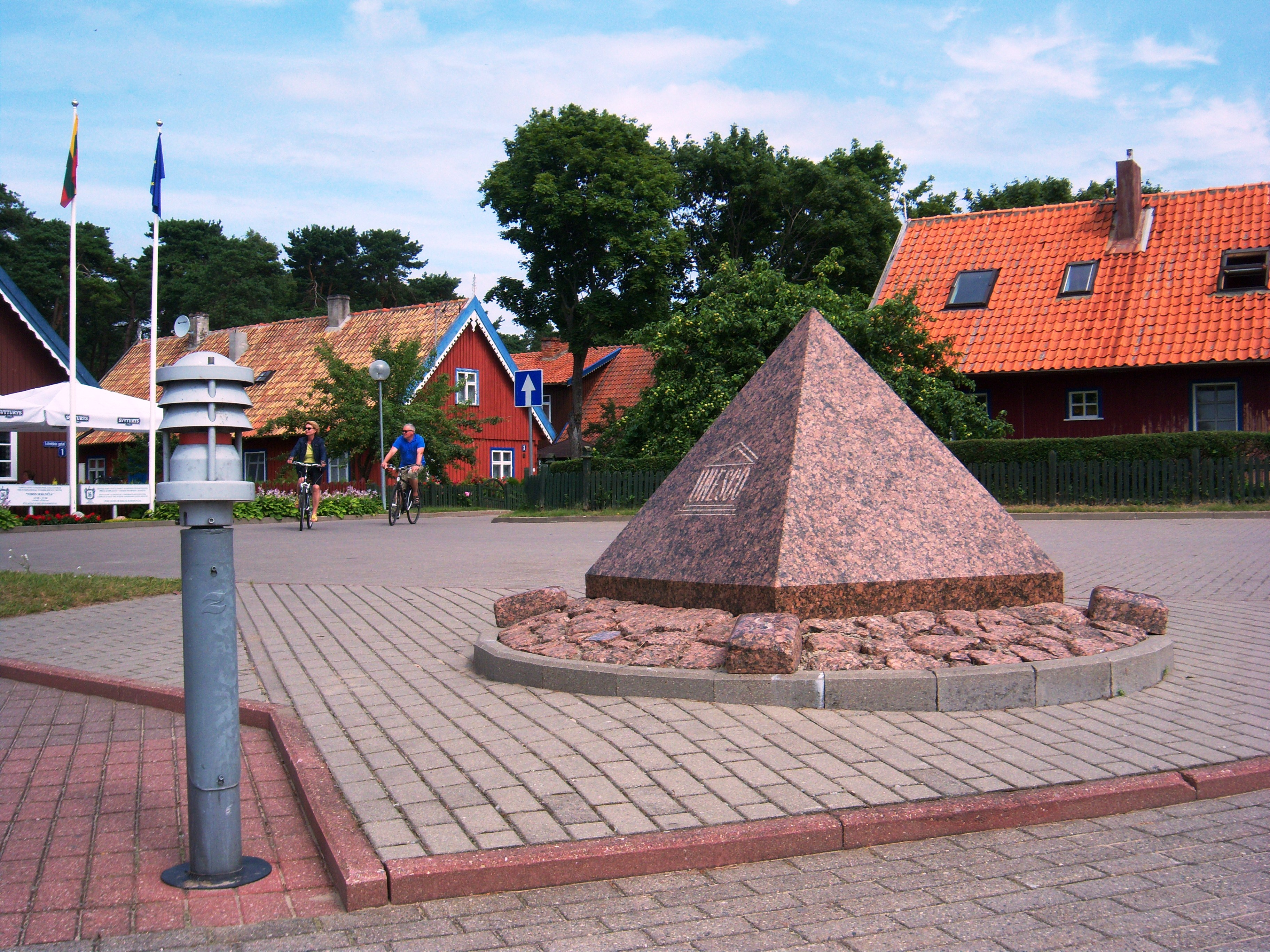 UNESCO World Heritage Site monument of Curonian spit in Nida, Lithuania